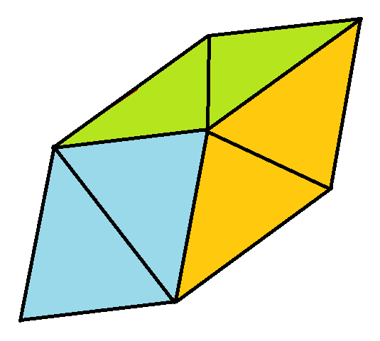 Gyroelongated triangular bipyramid with colplanar triangular faces